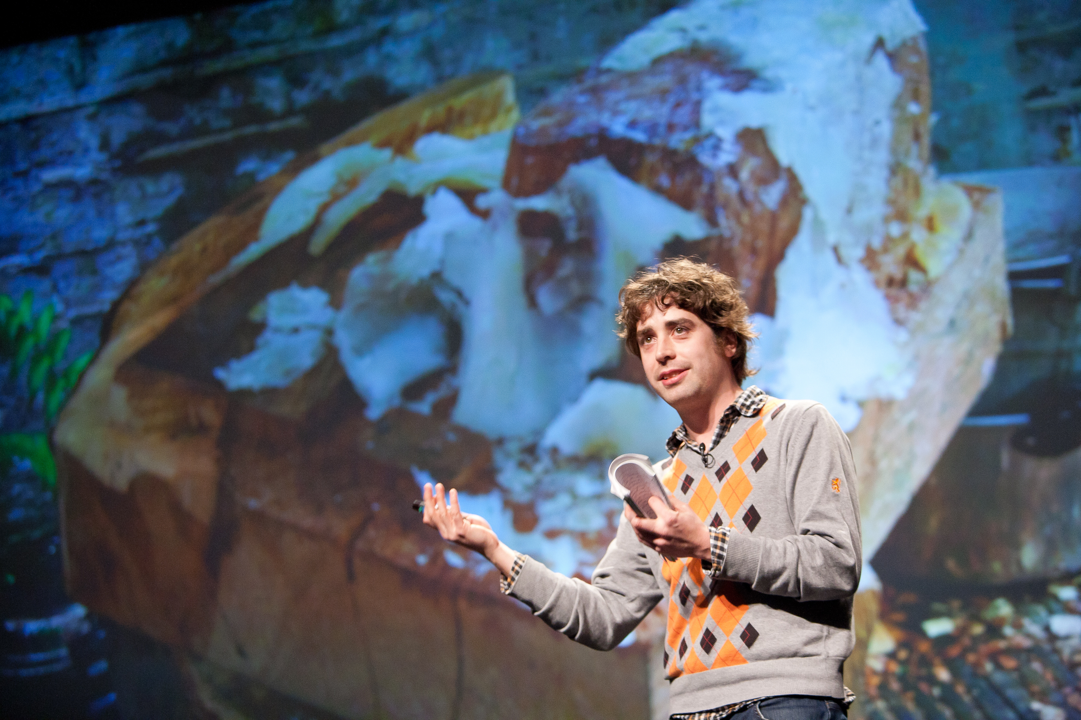 Thomas Thwaites - PopTech 2011 - Camden Maine USA Thomas Thwaites shares his attempt to create a toaster - from scratch - as an exploration and critique of the modern production processes photo by Kris Krüg for PopTech